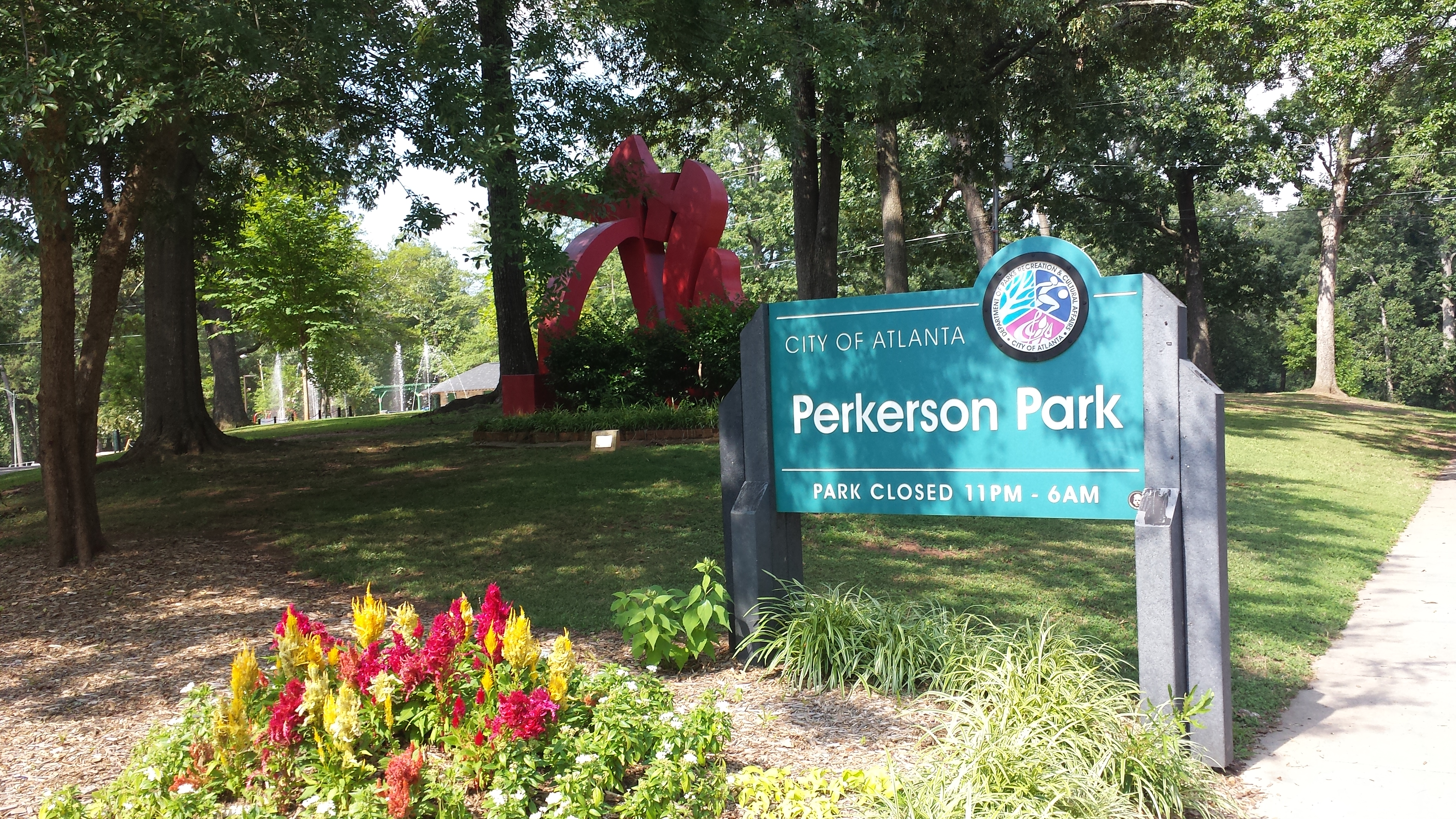 Perkerson Park main entrance.